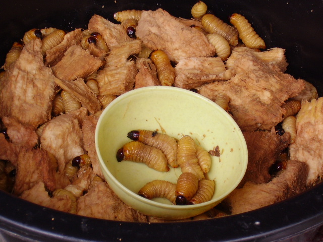 A plate of fried sago with meat in Sarawak.